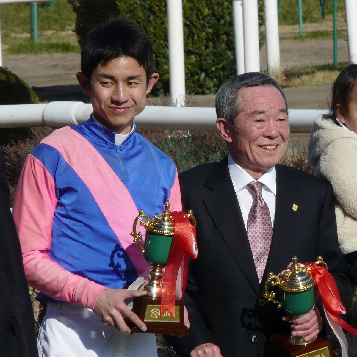 Ryo-Takahashi20120219